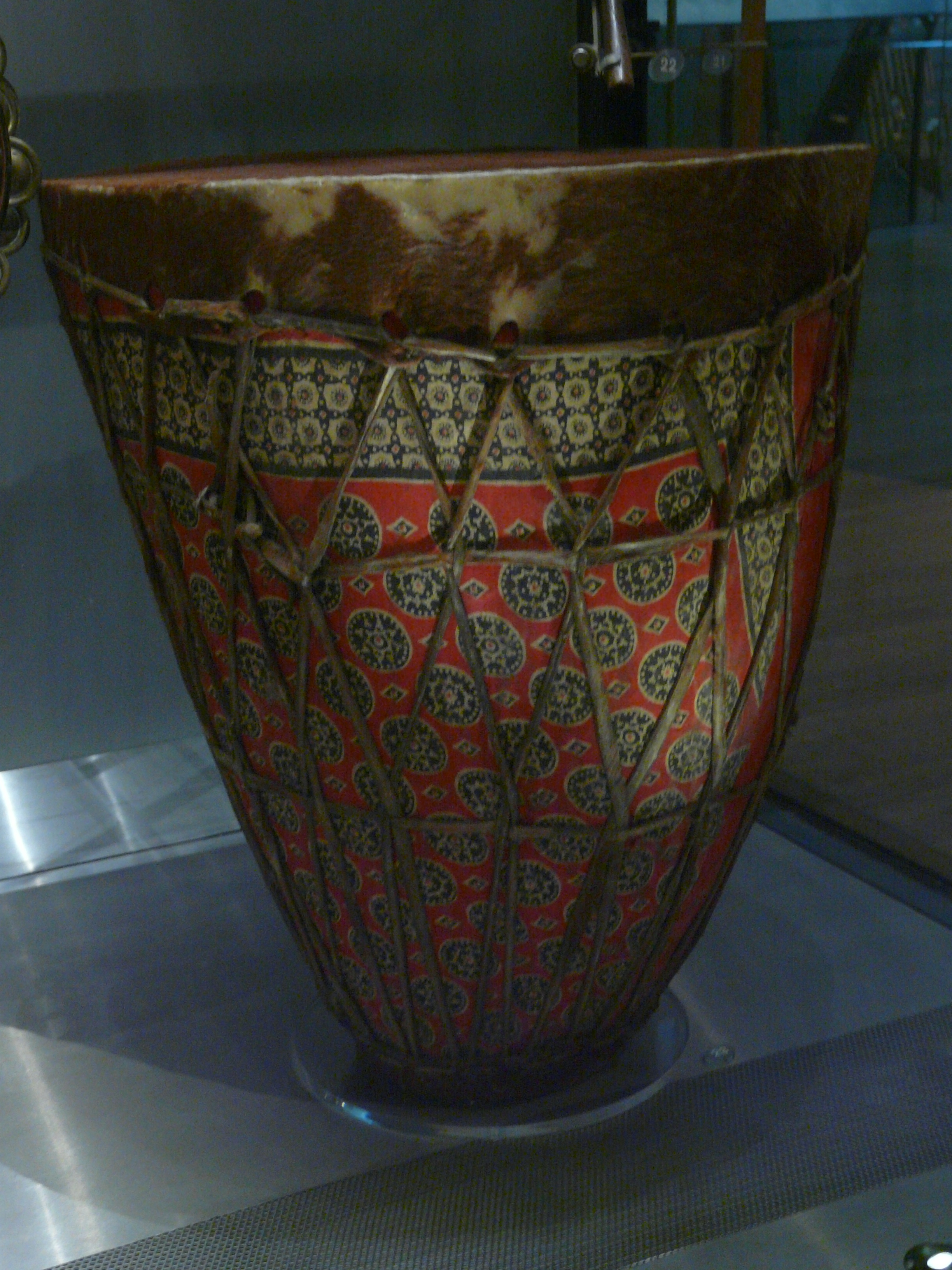 Ethiopian Kabaro, Horniman Museum, Forest Hill